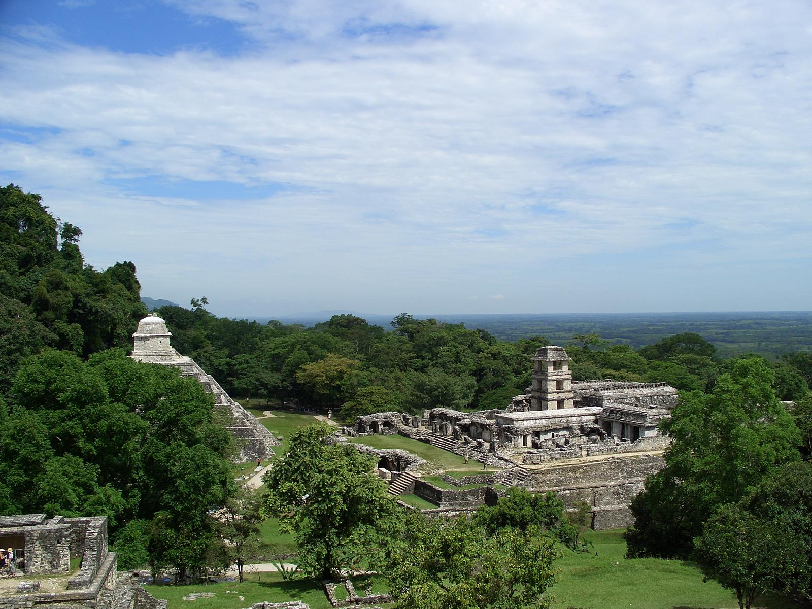 Mexico